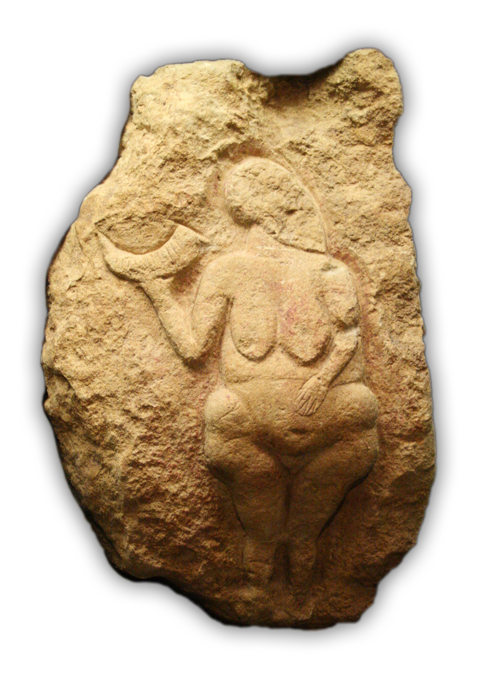 Venus of Laussel, picture of the original kept in Bordeaux museum, France